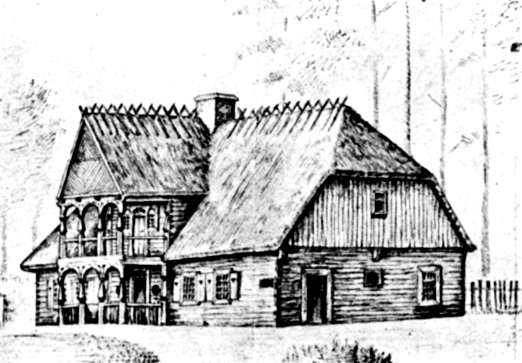 Image from Z. Gloger's "Encyklopedia staropolska" Polish manor house in Wroceń